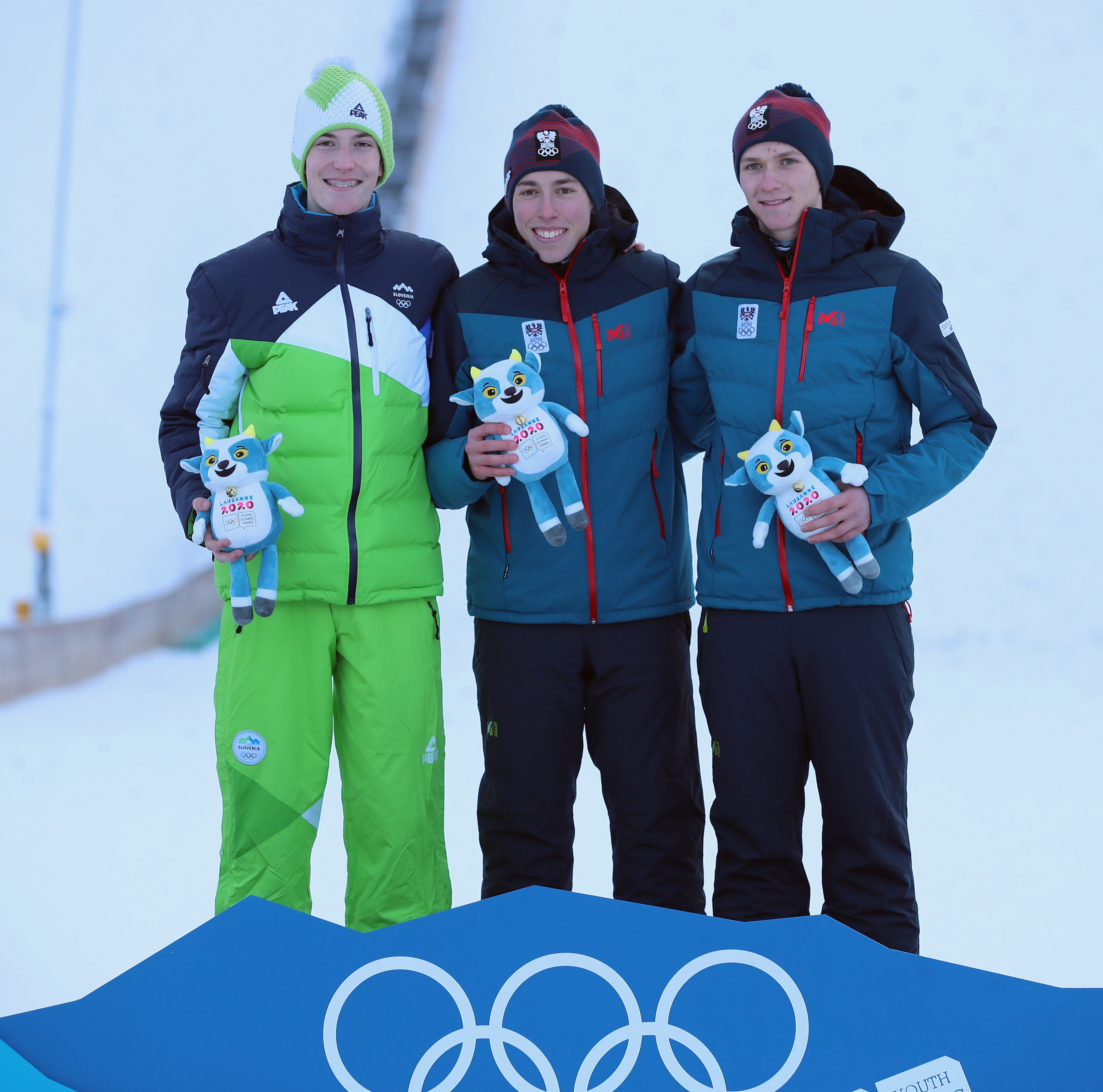 Mascot Ceremony of Ski jumping – Men's Individual at the 2020 Winter Youth Olympics in Lausanne on 19 January 2020.